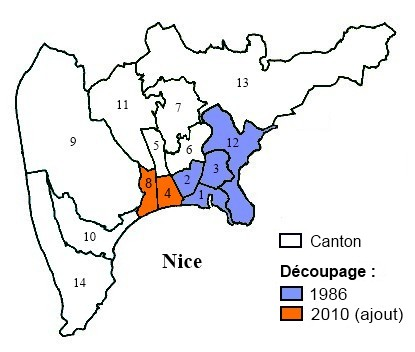 Evolution of map of Alpes Maritimes' 1st constituency (France) since 1986 redistricting.